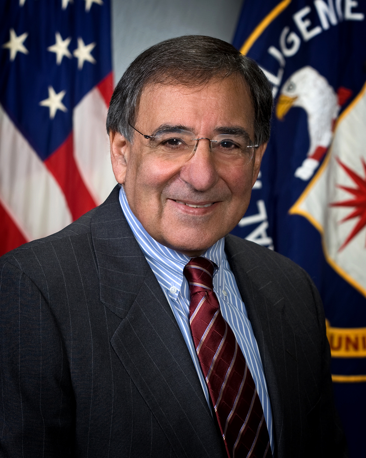 Official portrait of the former Director of the Central Intelligence Agency Leon Panetta.